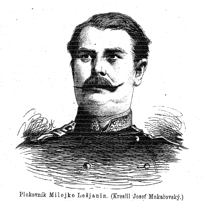 Portrait of Milojko Lešjanin, colonel in the war of Serbia against Turkey in 1876.